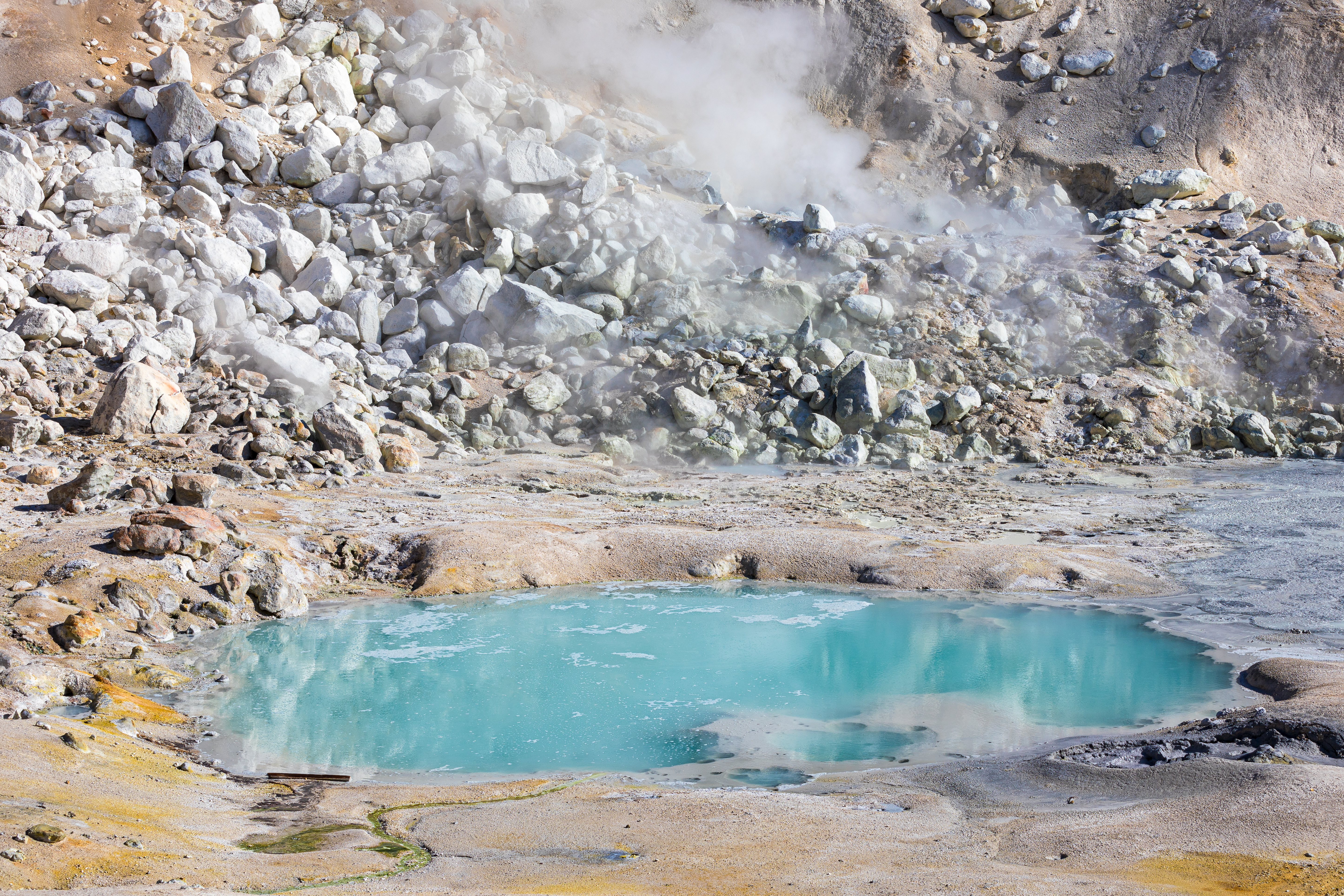 An aquamarine-colored water pool in the Bumpass Hell hydrothermal area, Lassen Volcanic National Park